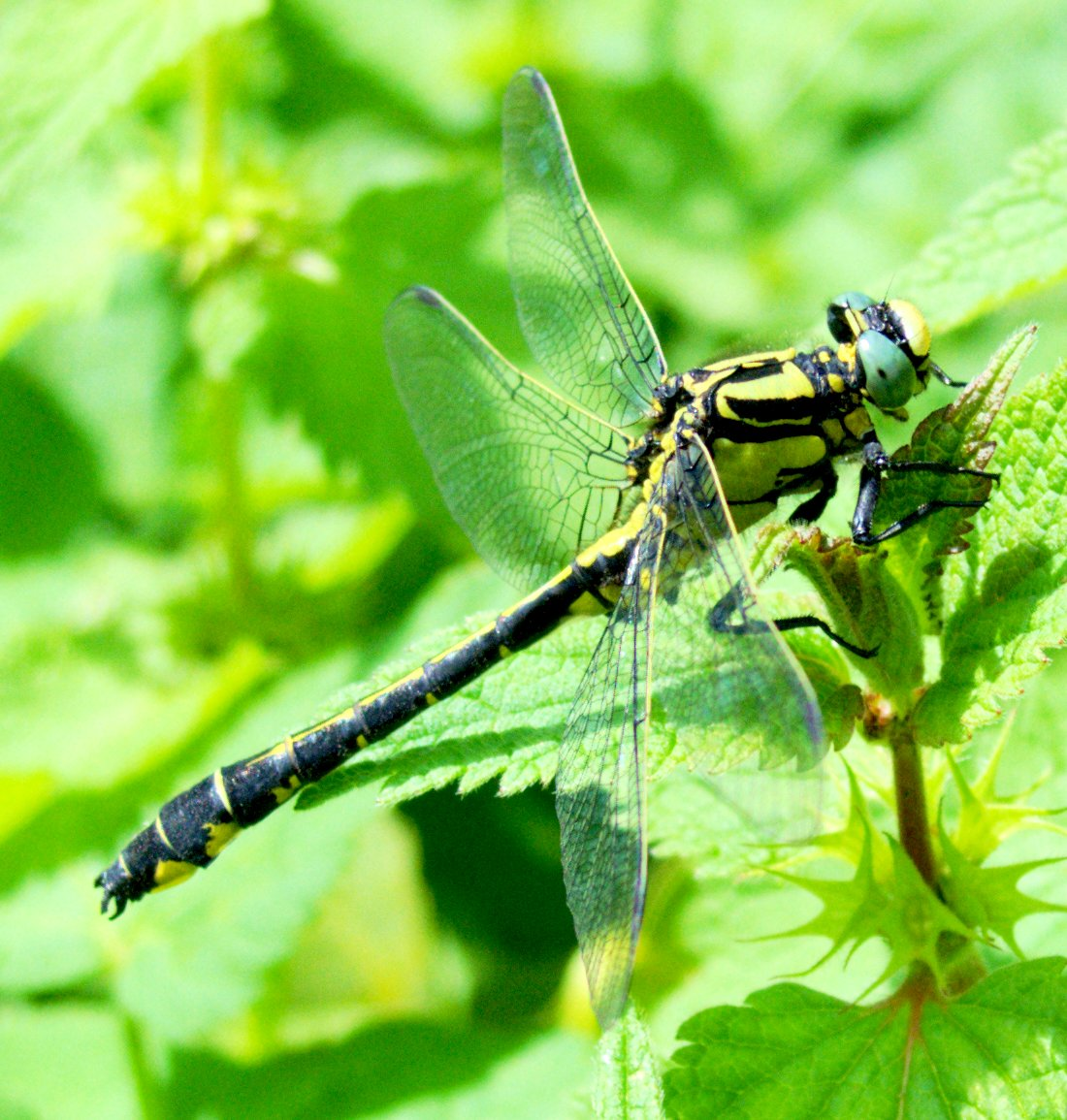 Name: Gomphus vulgatissimus, male. Family: Gomphidae. Location. Münster, NRW, Germany